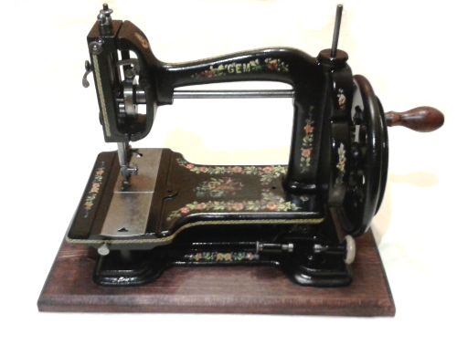 White Gem Sewing Machine from about 1886.